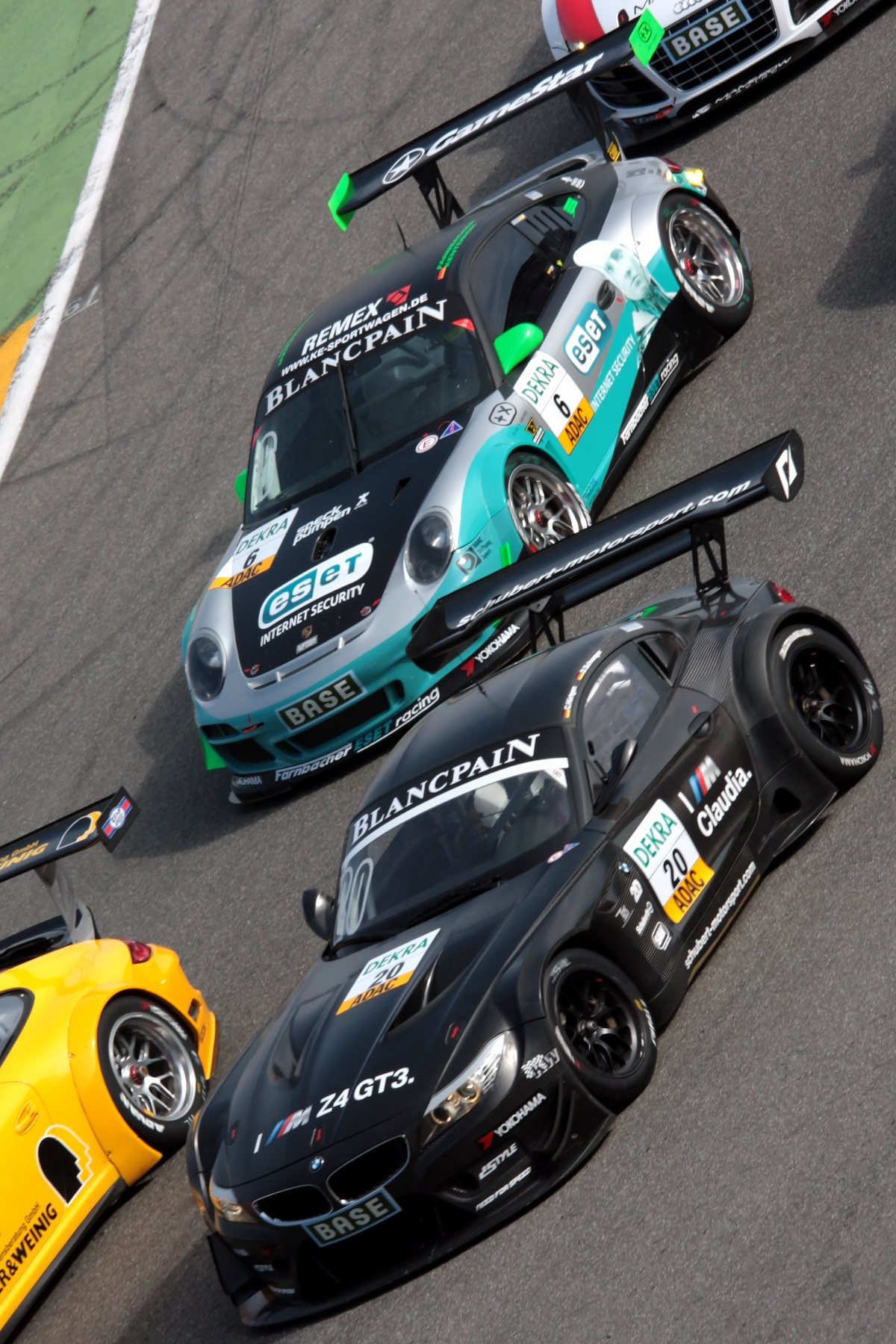 Claudia Hürtgen (BMW Z4 GT3) and Mario Farnbacher (Porsche 997 GT3 R) at the start of the first ADAC GT Masters race in Hockenheim 2012